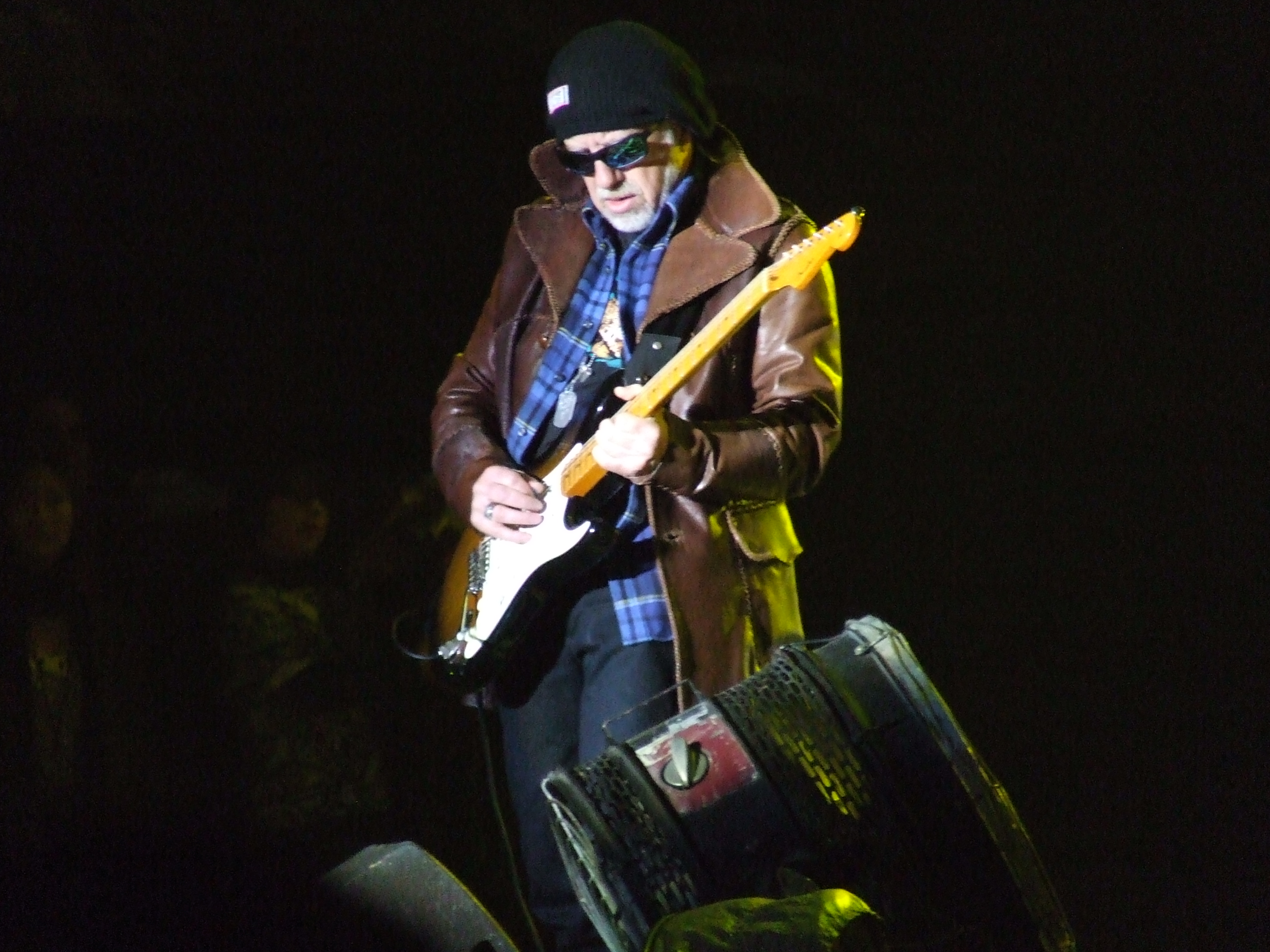 Brad Guitarra